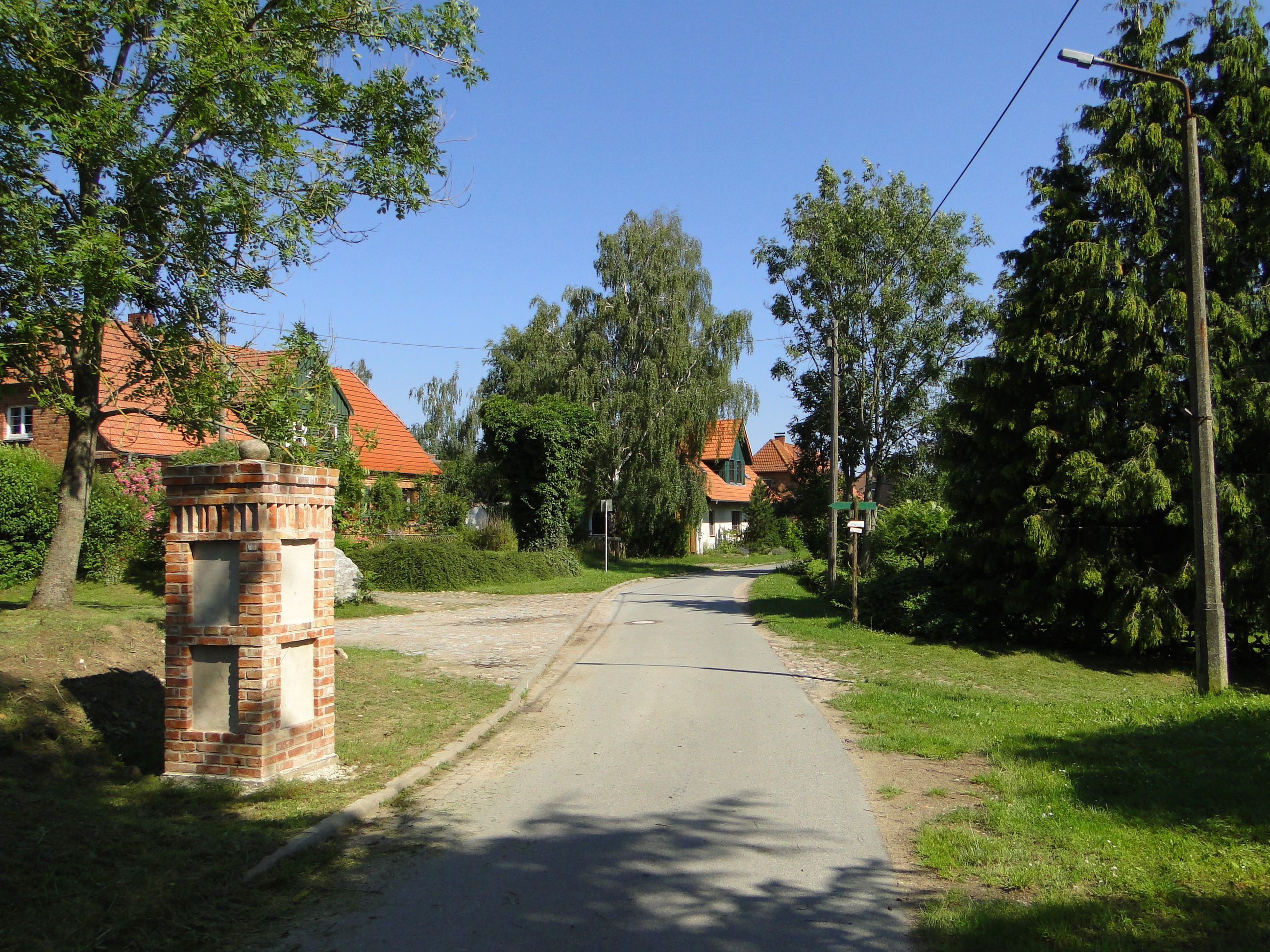 Posts of former gate of manor in Rum Kogel, district Güstrow, Mecklenburg-Vorpommern, Germany